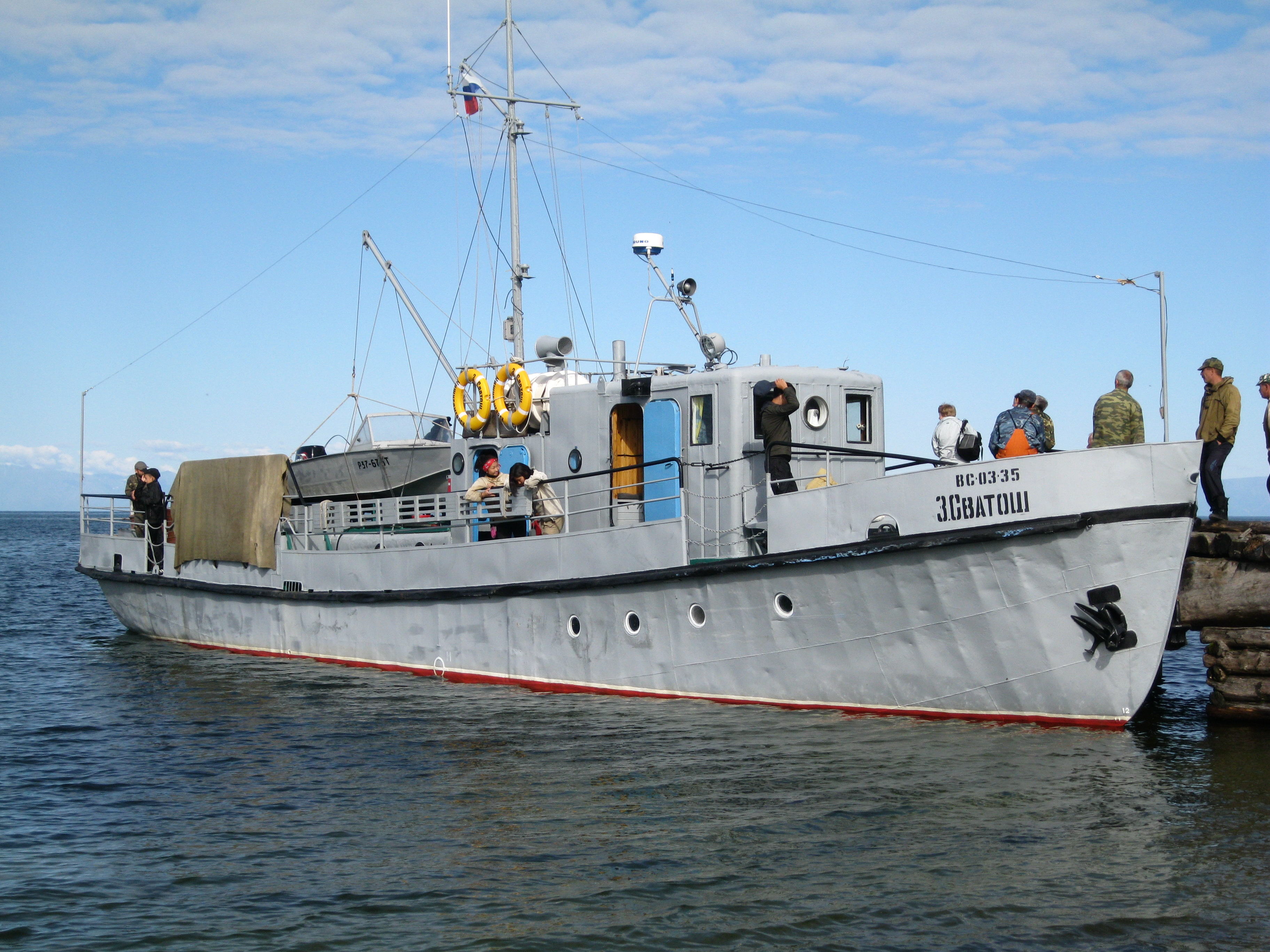 Svatoš motorship in Baikal waters, Russia